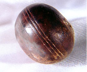 Hematite concretion found in the pyrophyllite ( wonderstone ) deposits near Ottosdal South Africa. Also called Klerksdorp Sphere.